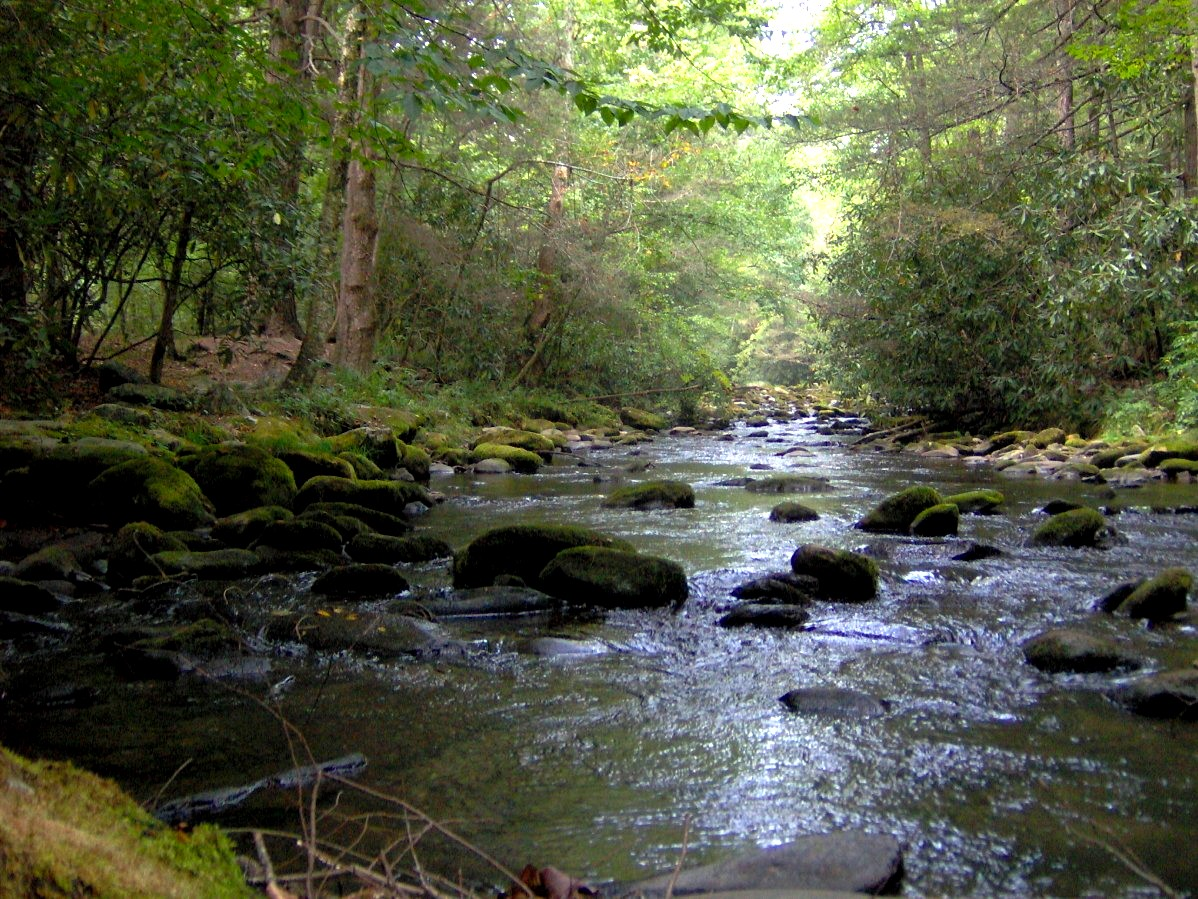 Palmer Creek near the Beech Grove School in Cataloochee, located in the Great Smoky Mountains of North Carolina.